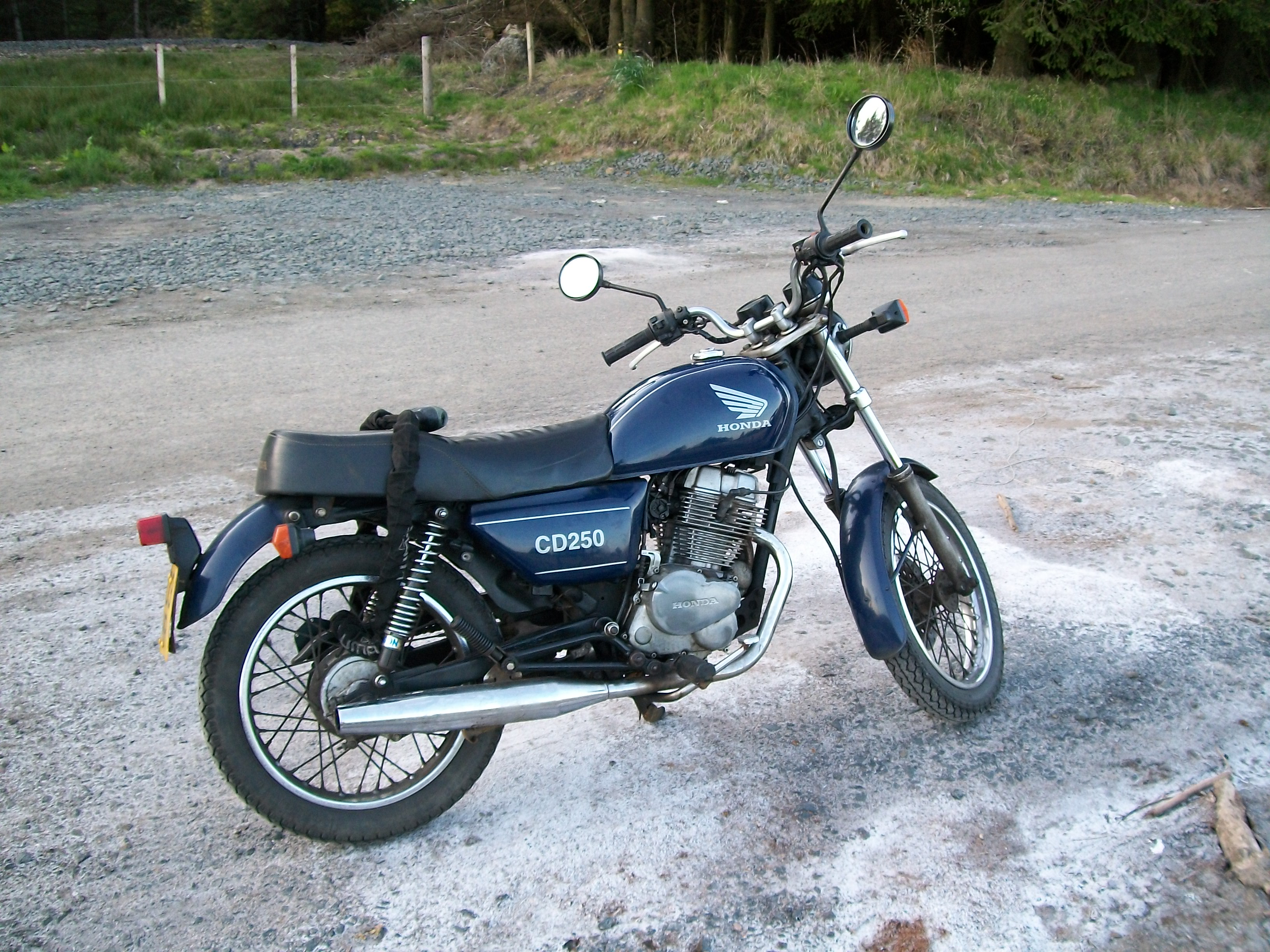 A photo of my Honda CD250U. It's fairly standard, although the side cover and fuel tank decals are not and it's missing its handlebar end weights.